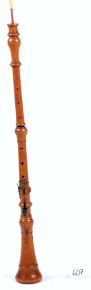 Oboe, MDMB 607, Salvador Xurriach, Museu de la Música de Barcelona